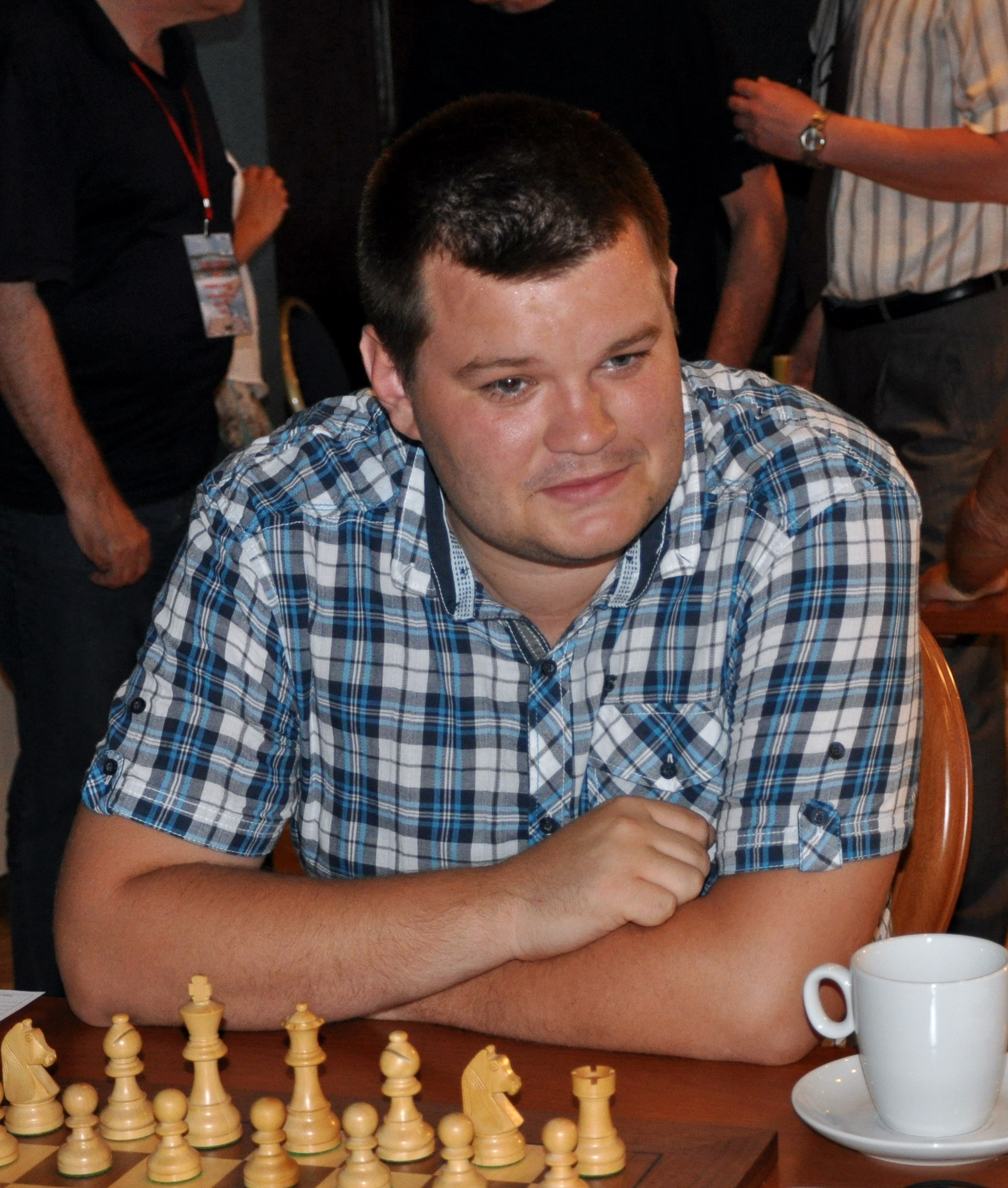 GM Ante Saric, Pula Open 2011.